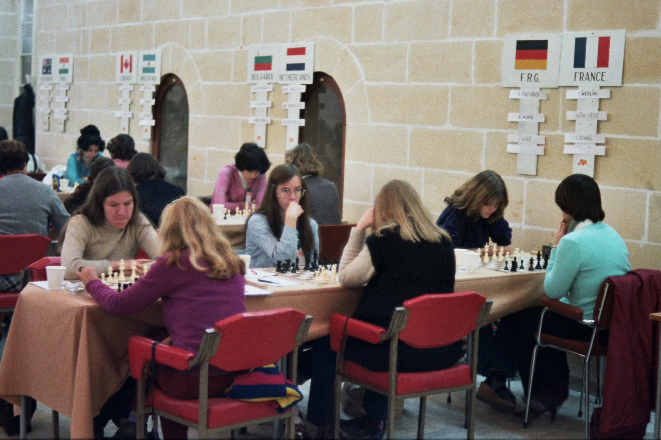 German wimen (Gisela Fischdick, Barbara Hund, Isabel Hund), Chess Olympiad 1980 in Valetta on Malta, Photographer Gerhard Hund.